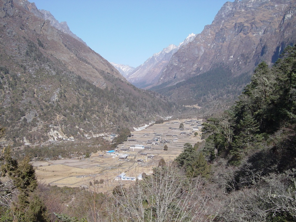 Ghunsa village lies in Taplejung District of Eastern Nepal